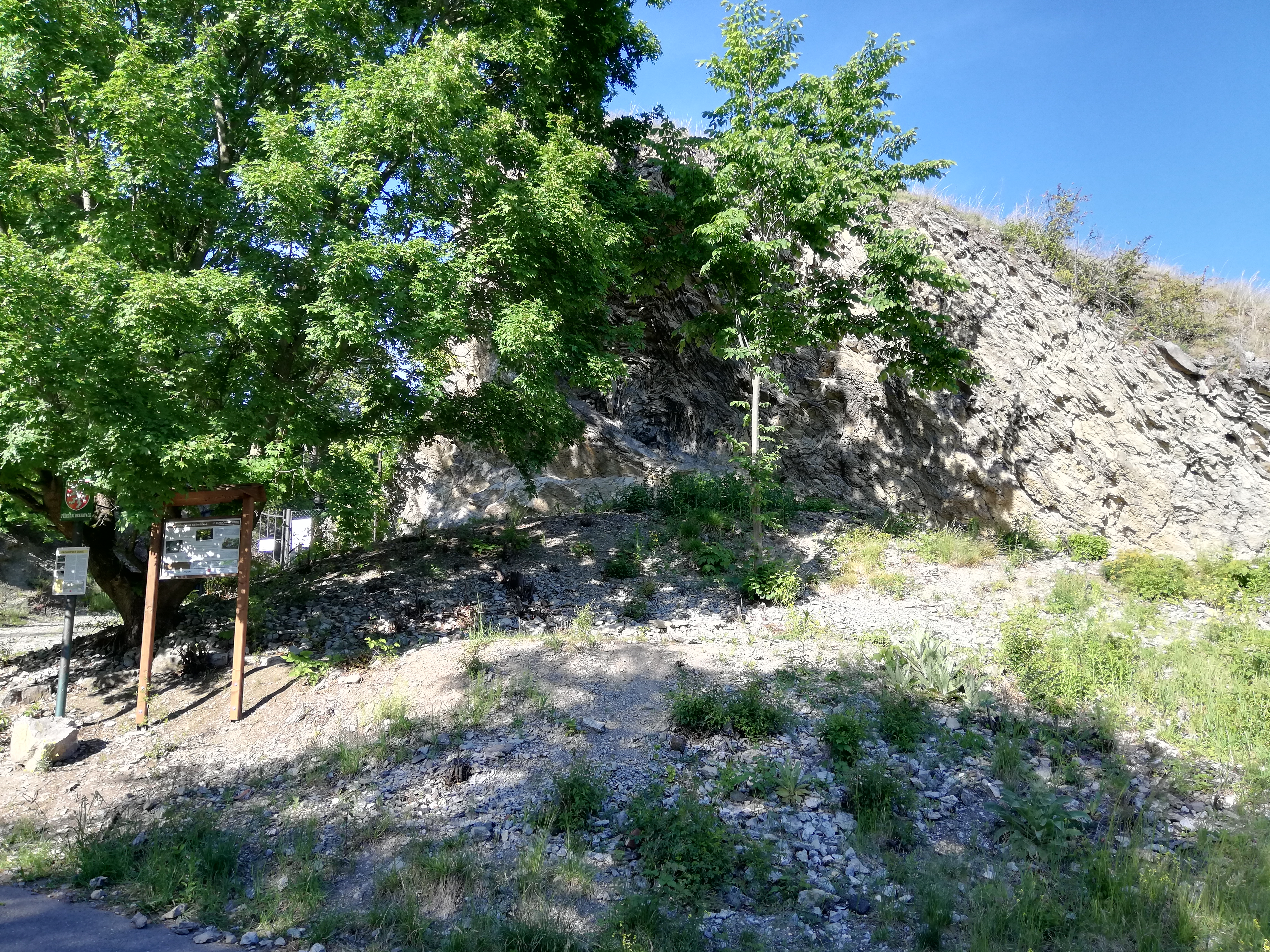 Today, Halad's Garden is just a landmark on the "Dalejský brook" nature trail. Until 1990, it used to be a publicly accessible small botanical garden by the road built by Mr. Halada Sr. (hence the name) and maintained by volunteers of the state nature protection, where grew the most interesting plant species of the Prokopské and Dalejské valleys. Full view of the habitat.